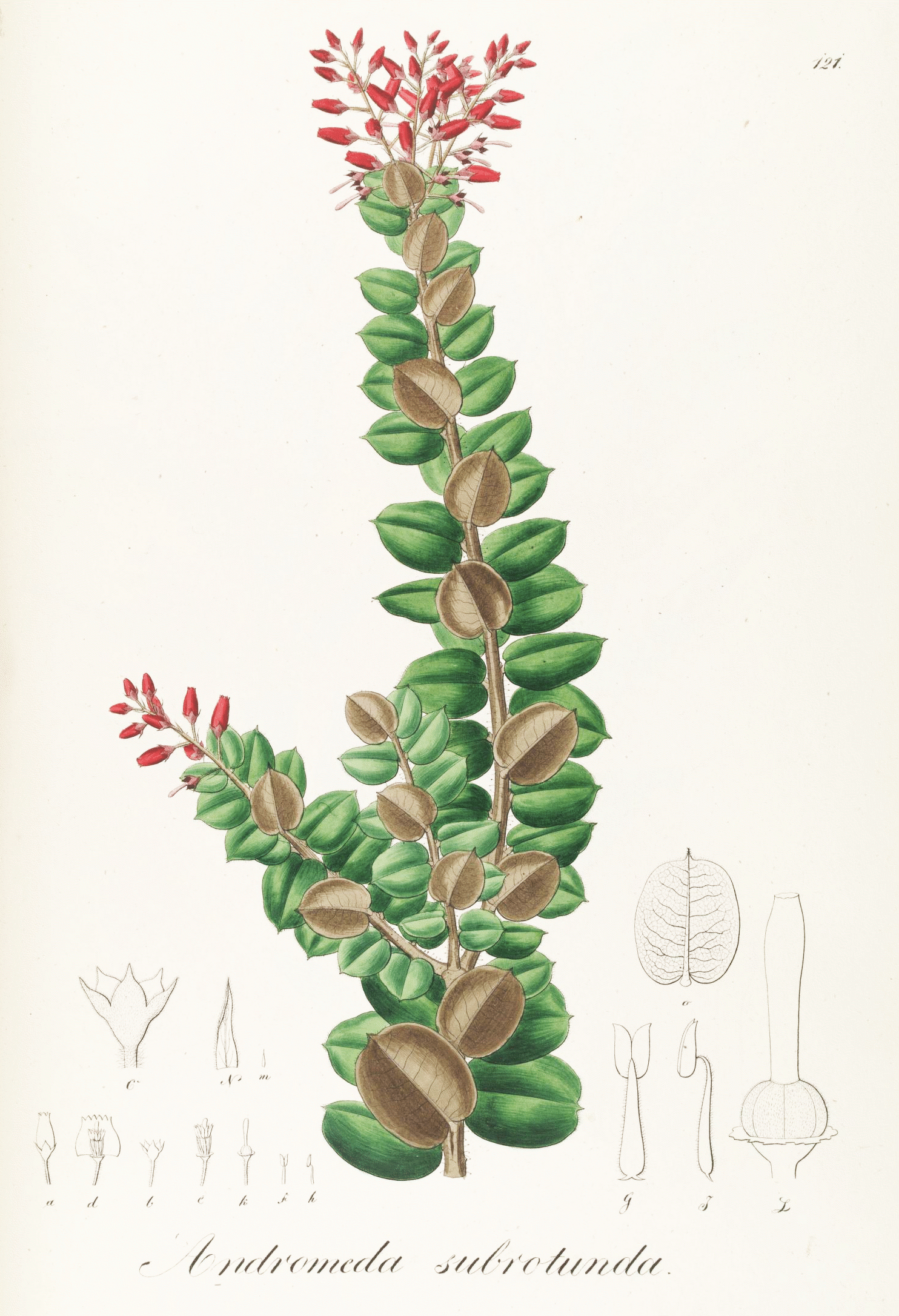 Plate from book